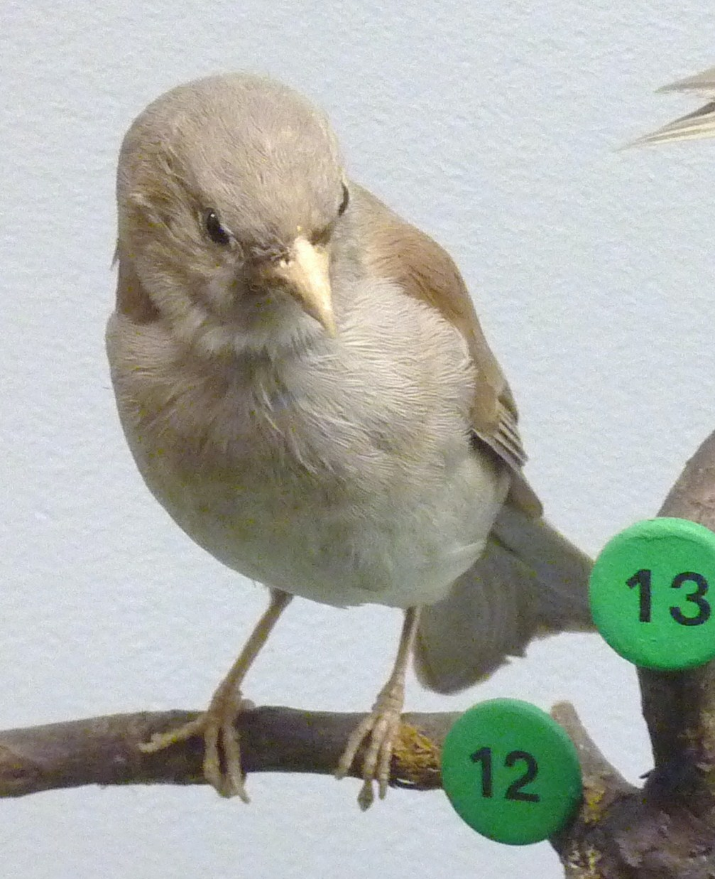 A mounted specimen of a sparrow at the Muséum d'histoire naturelle de Genève, said to be "Passer griseus". This probably is a Northern Grey-headed Sparrow—Passer griseus in the strict sense—given the white throat patch and the description of the range of the species ("Ouest et centre de l'Afrique") at the museum, though the Swahili Sparrow and Southern Grey-headed Sparrow would be difficult to distinguish; if it is a Northern Grey-headed Sparrow, it probably is the nominate subspecies griseus.